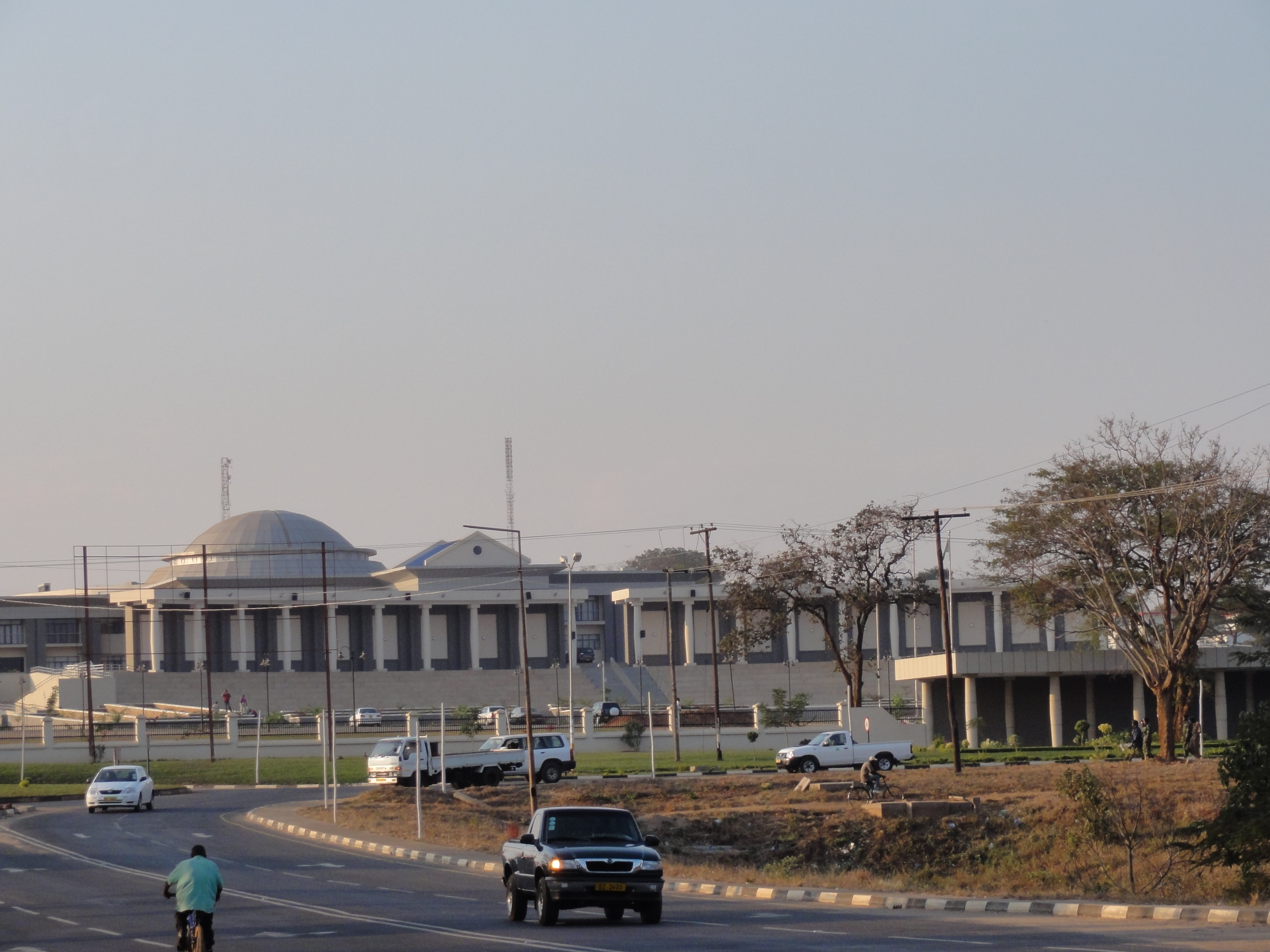 Parliamentbuilding